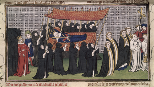 Funeral of Jeanne of Bourbon, wife of Charles V.